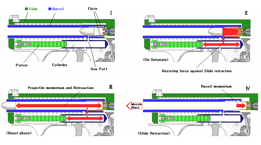 Basic concept of Gas delayed Blowback of H&K P7.